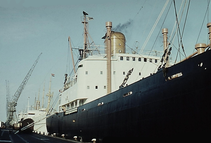 North German Lloyd Turbine Cargo Ship Nabob in the overseas port of Bremen - 1959